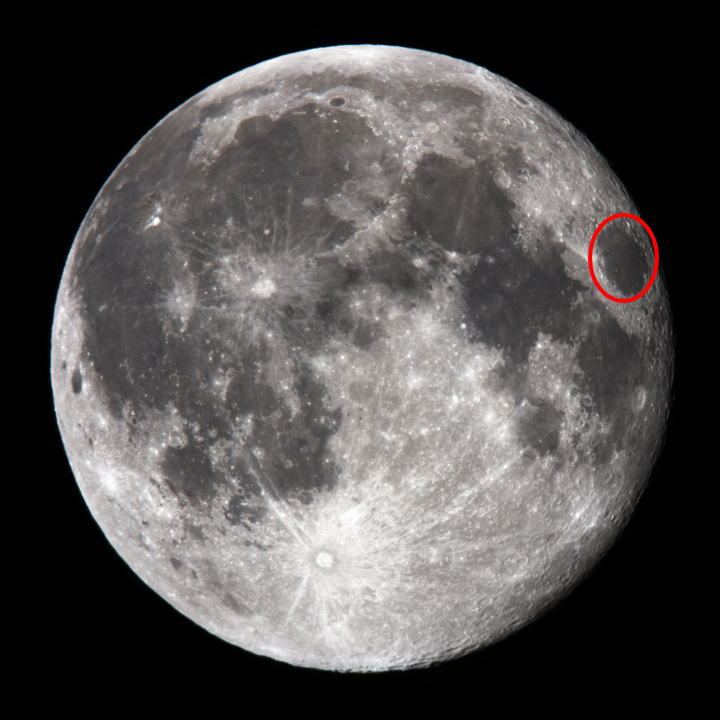 The Location of Mare Crisium, One of the Lunar Geographical Features.